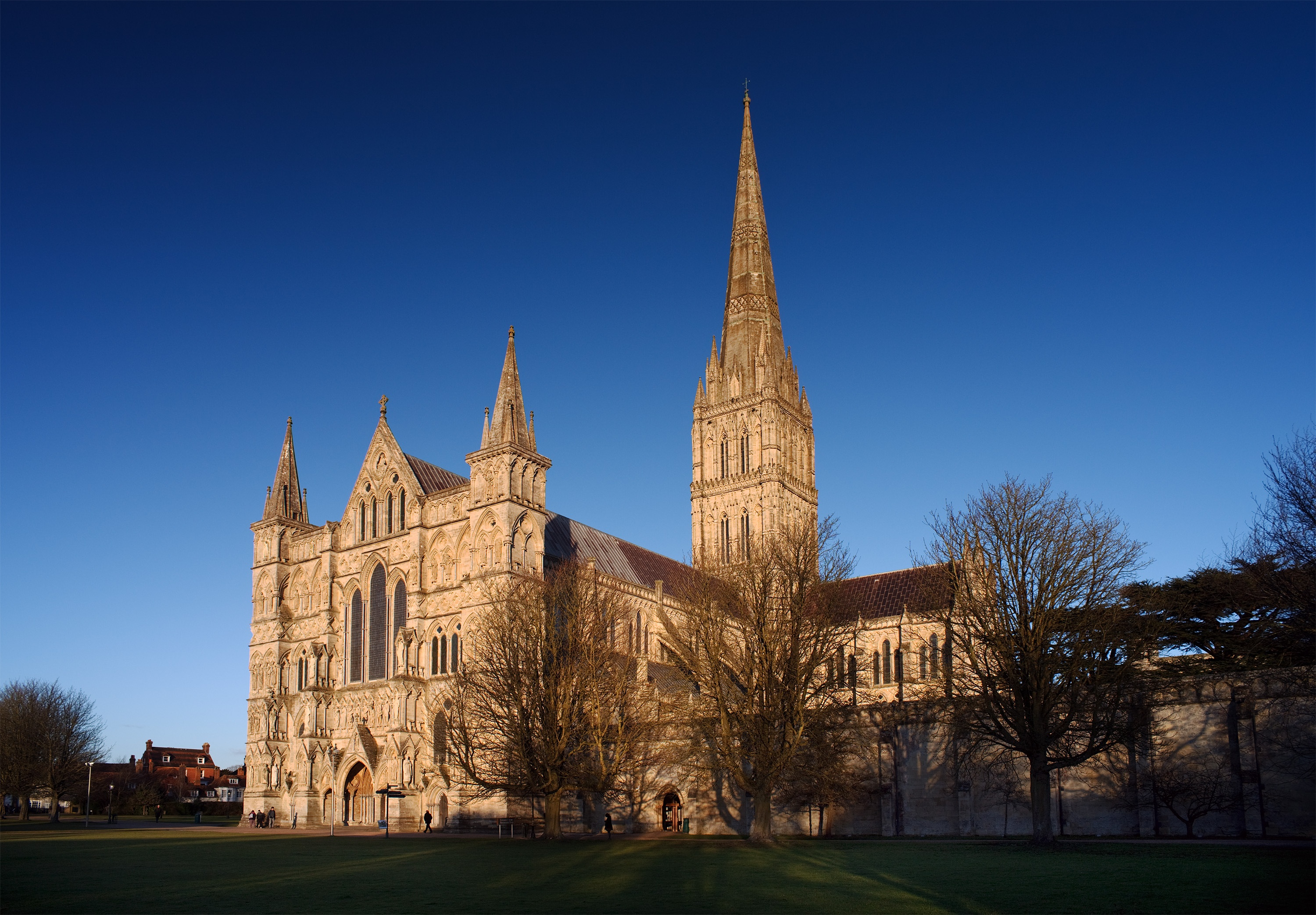 Salisbury Cathedral from the West